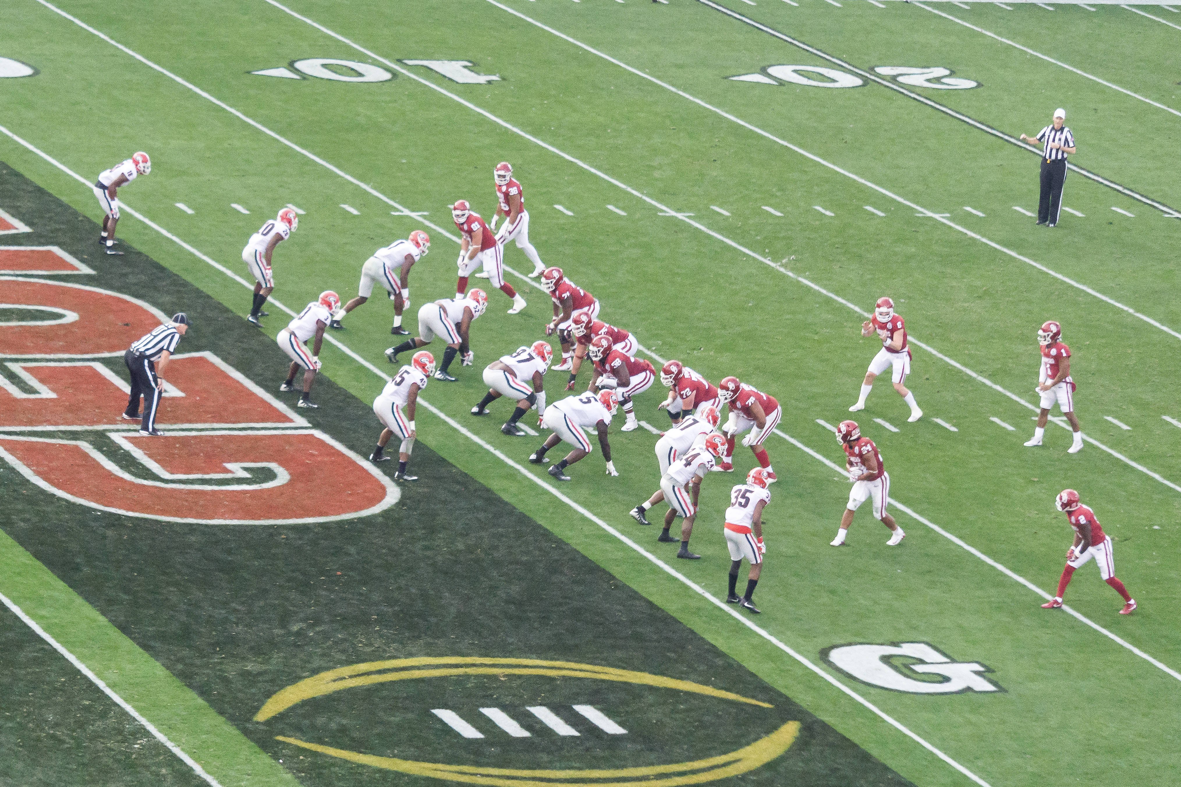 2018 Rose Bowl - Oklahoma's offense faces off with Georgia's defense